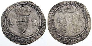 Ireland. IRELAND. Philip and Mary. 1557. Billon Groat (2.96 gm). Confronted busts; crown above Crowned harp, crowned P and crowned M to either side; mm: rose. D&F 237; Seaby 6501C. Near VF, porous.